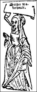 Woodcut of Agnes Waterhouse the first person to be executed as a witch in England. c1566